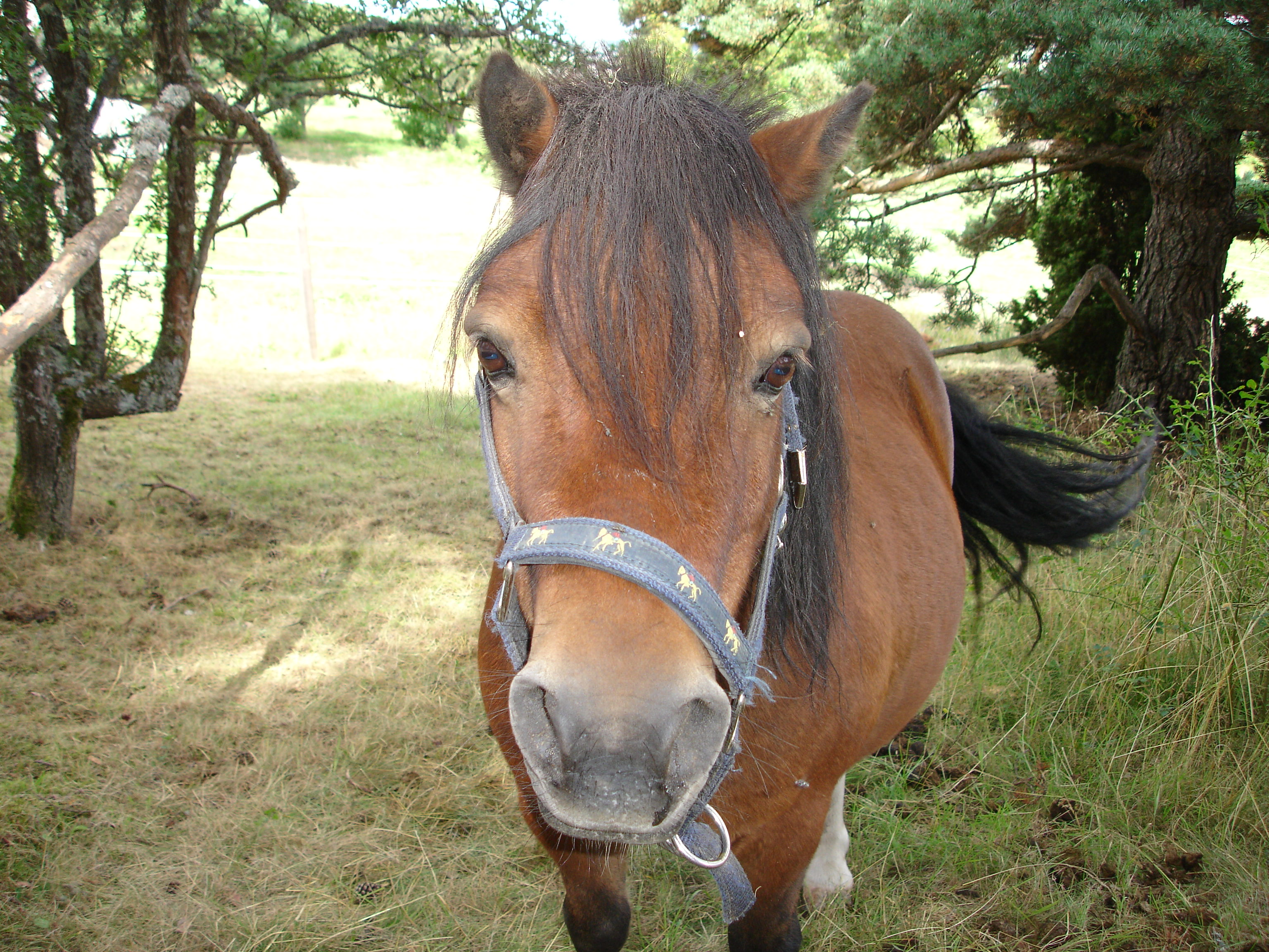 Shetland pony named "Pom Pom" - Lozere (France)